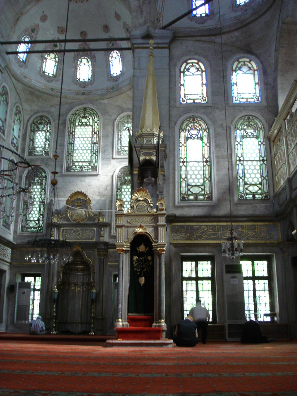 Istanbul - Mihrab and minbar of the mosque in Eyüp. Picture by: Giovanni Dall'Orto, May 30 2006.